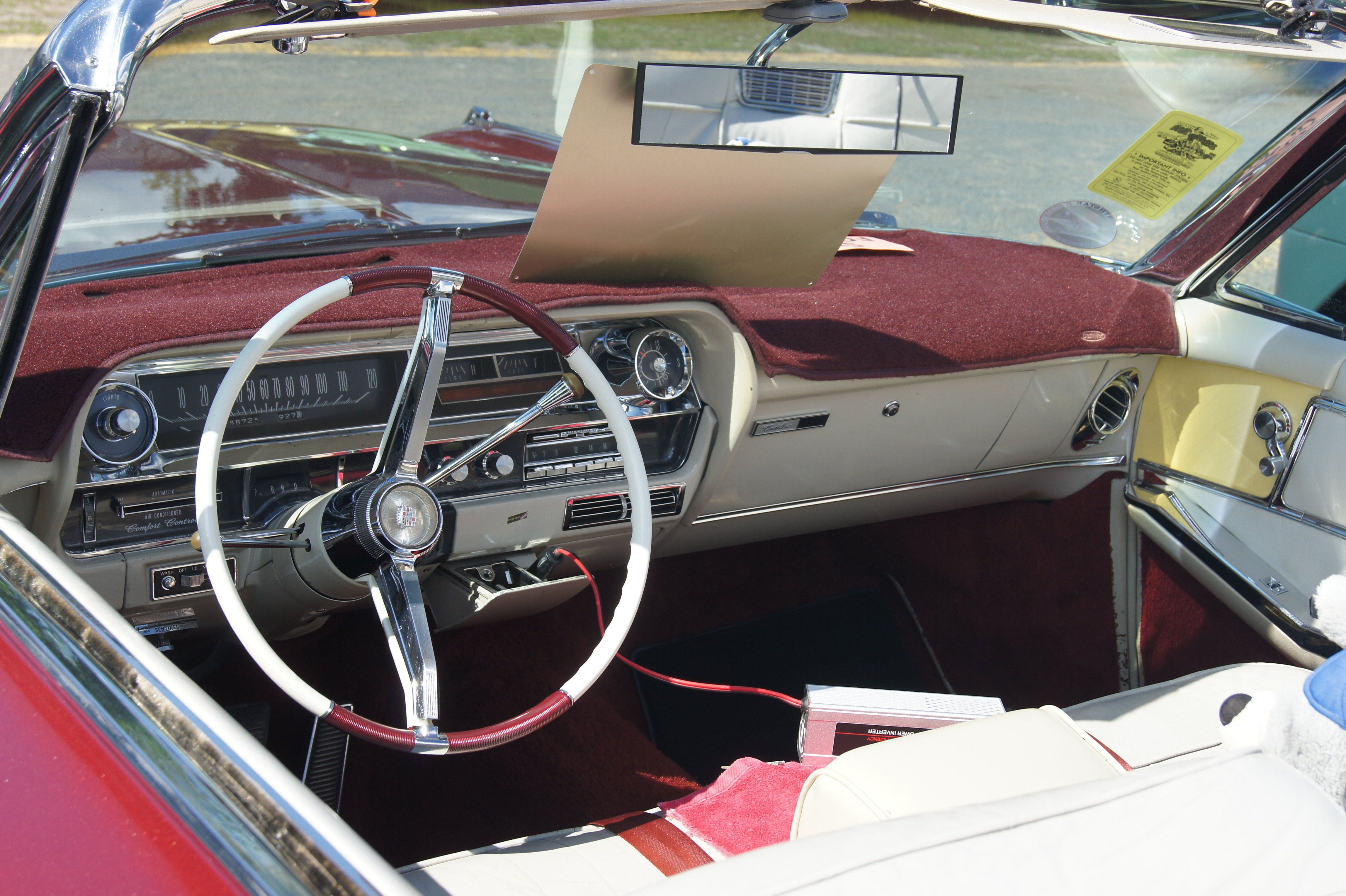 MSRA “BACK TO THE 50′s” 42nd Annual June 19-21, 2015 State Fairgrounds St. Paul Minnesota Click here for more car pictures at my Flickr site.